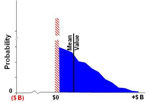 Datar Mathews Real Option Method Wikipedia Fig 2C Payoff Distribution and Option Value